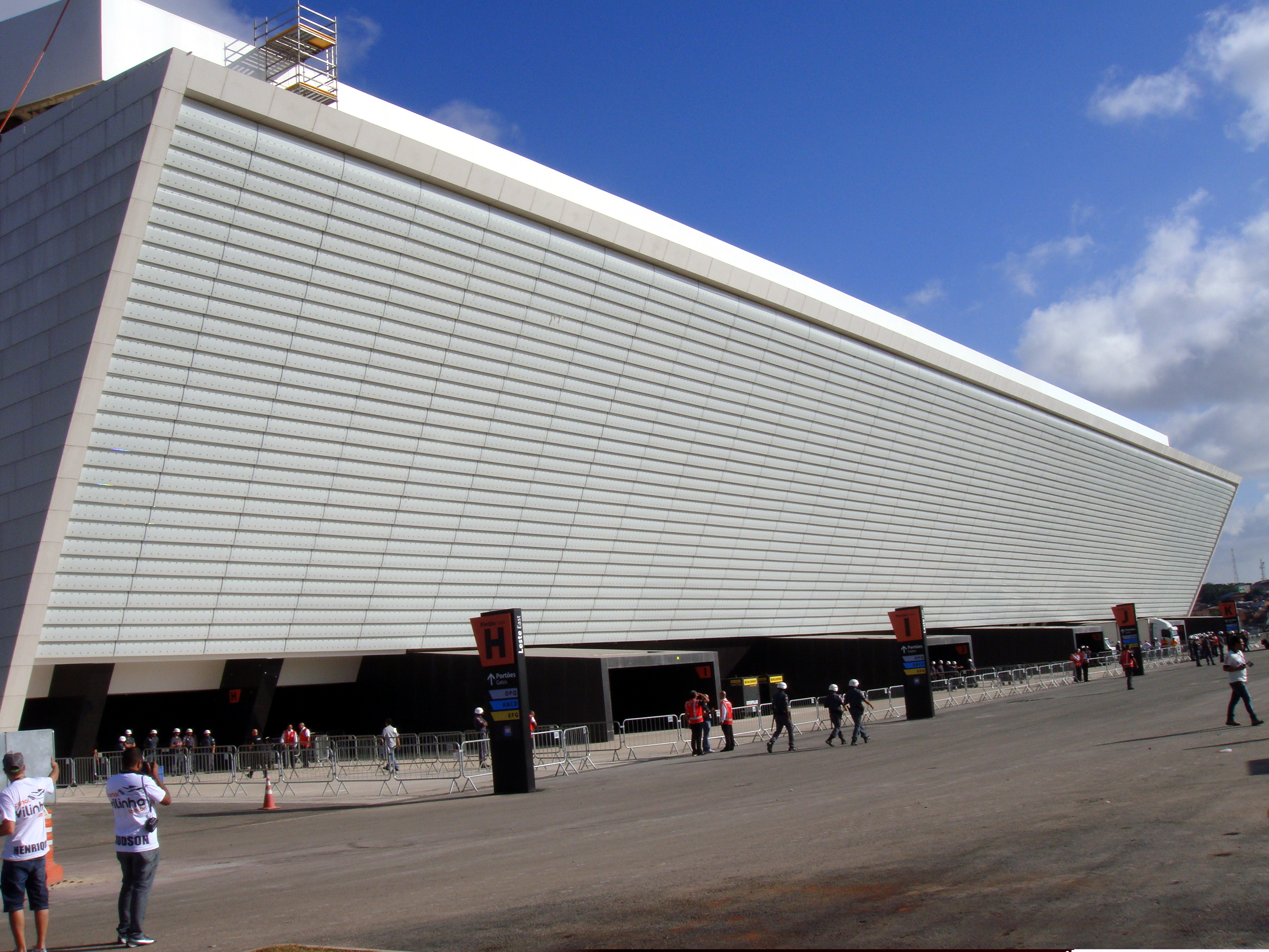 Led Screen, East Side of Arena Corinthians